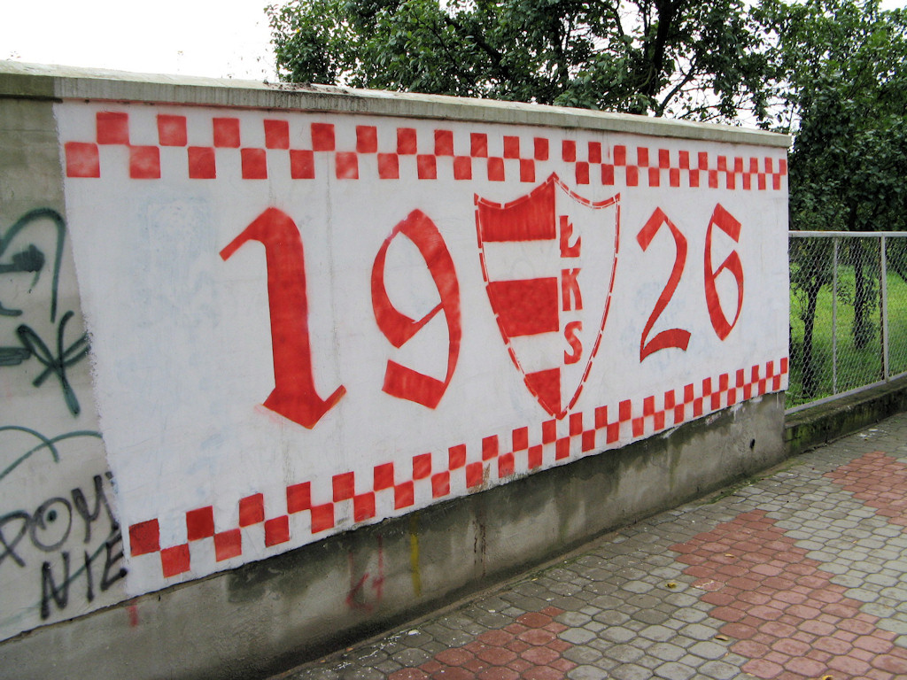 Graffiti showing artistic vision of coat of arms of football team ŁKS Łomża.